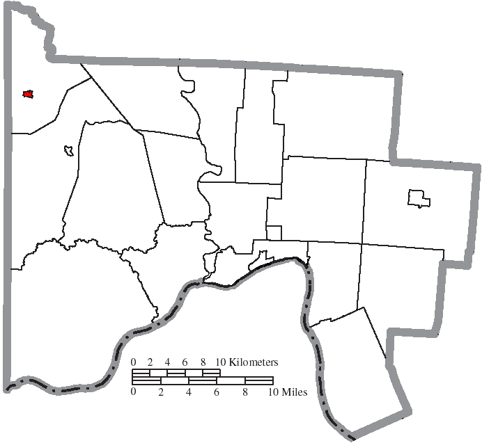 Map of the municipal and township boundaries of Scioto County, Ohio, United States, as of the 2000 census, with the location of the village of Rarden highlighted. Township borders are shown only in unincorporated areas in order to differentiate incorporated and unincorporated areas more clearly.